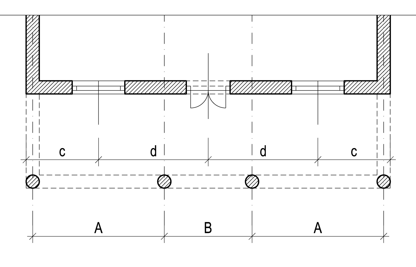 symbolic drawing with axis